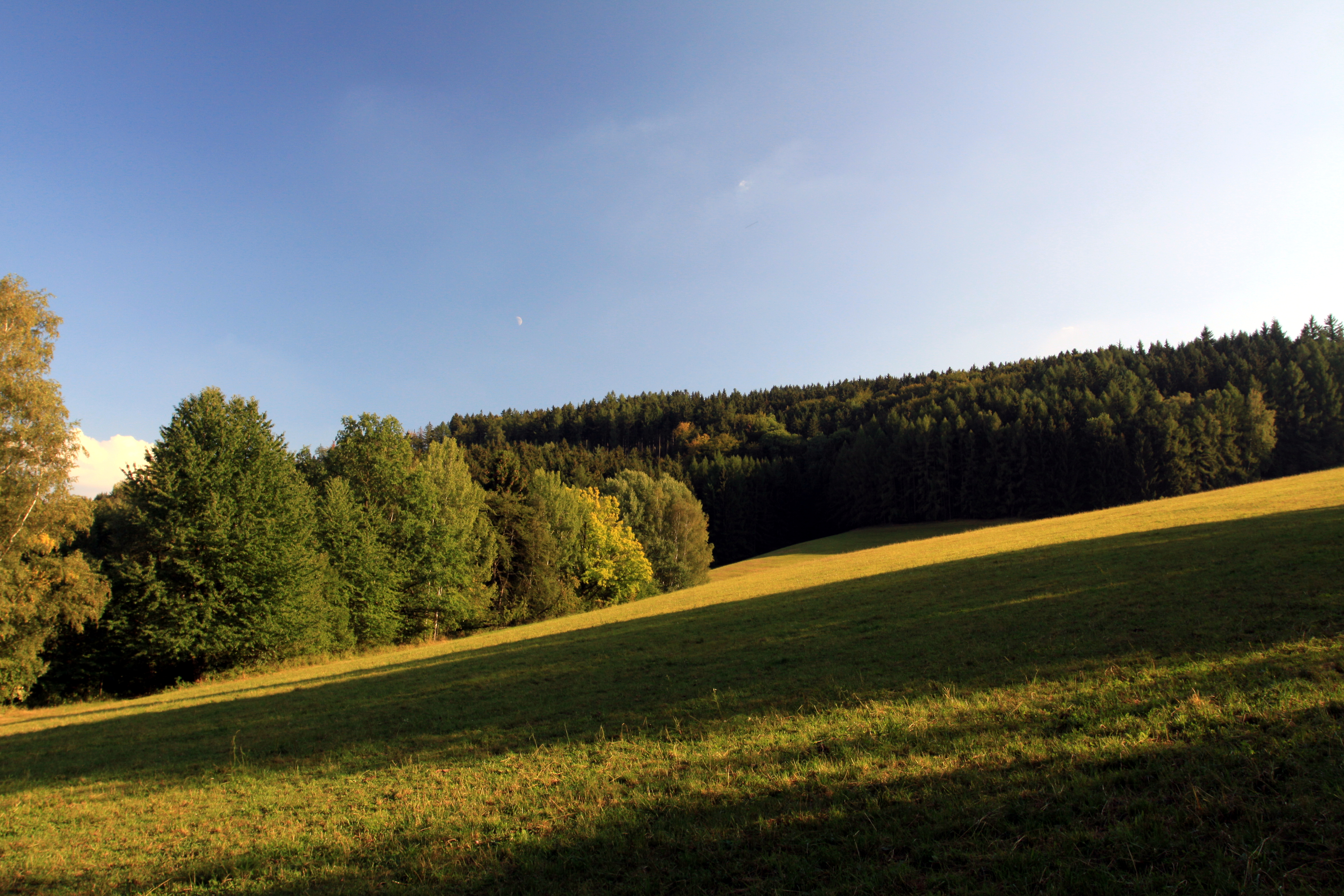 Natural monument Březinka located eastern from the town Náchod in the former Náchod District., Czech Republic